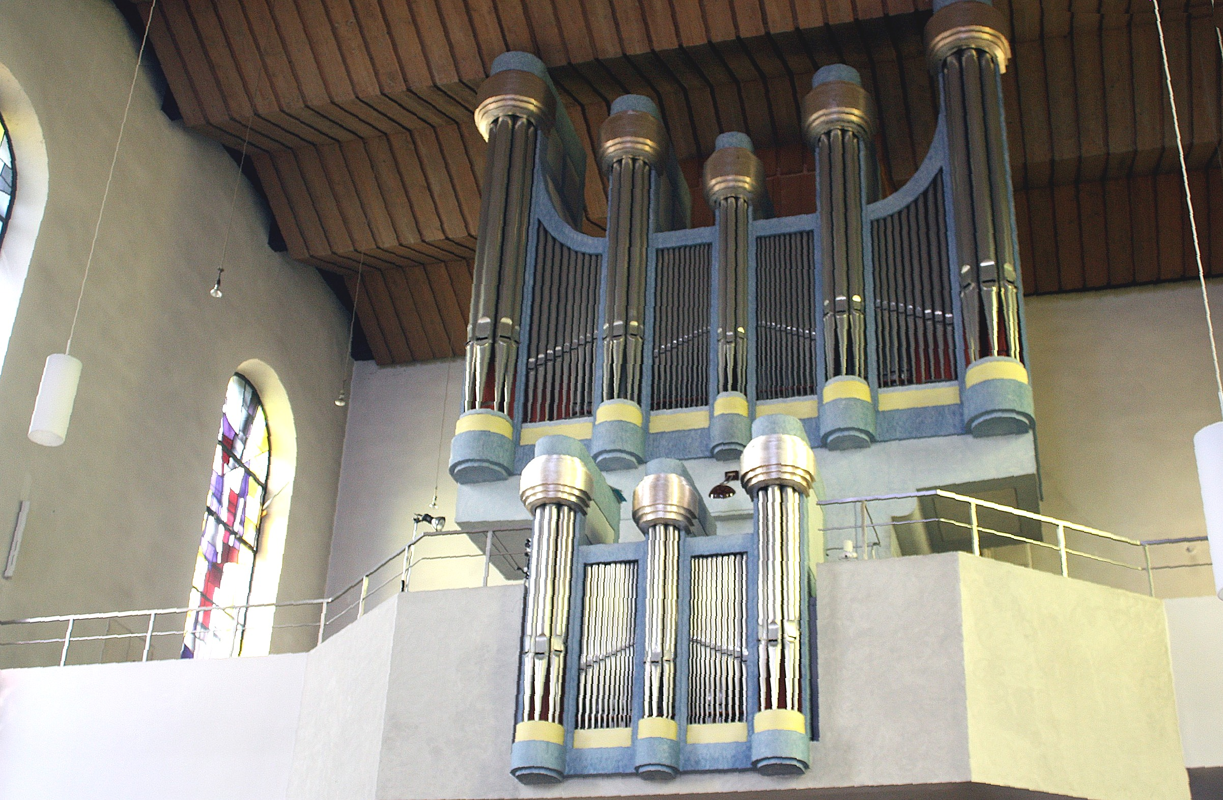 Friedrichshafen, St. Nicholas Church, the organ